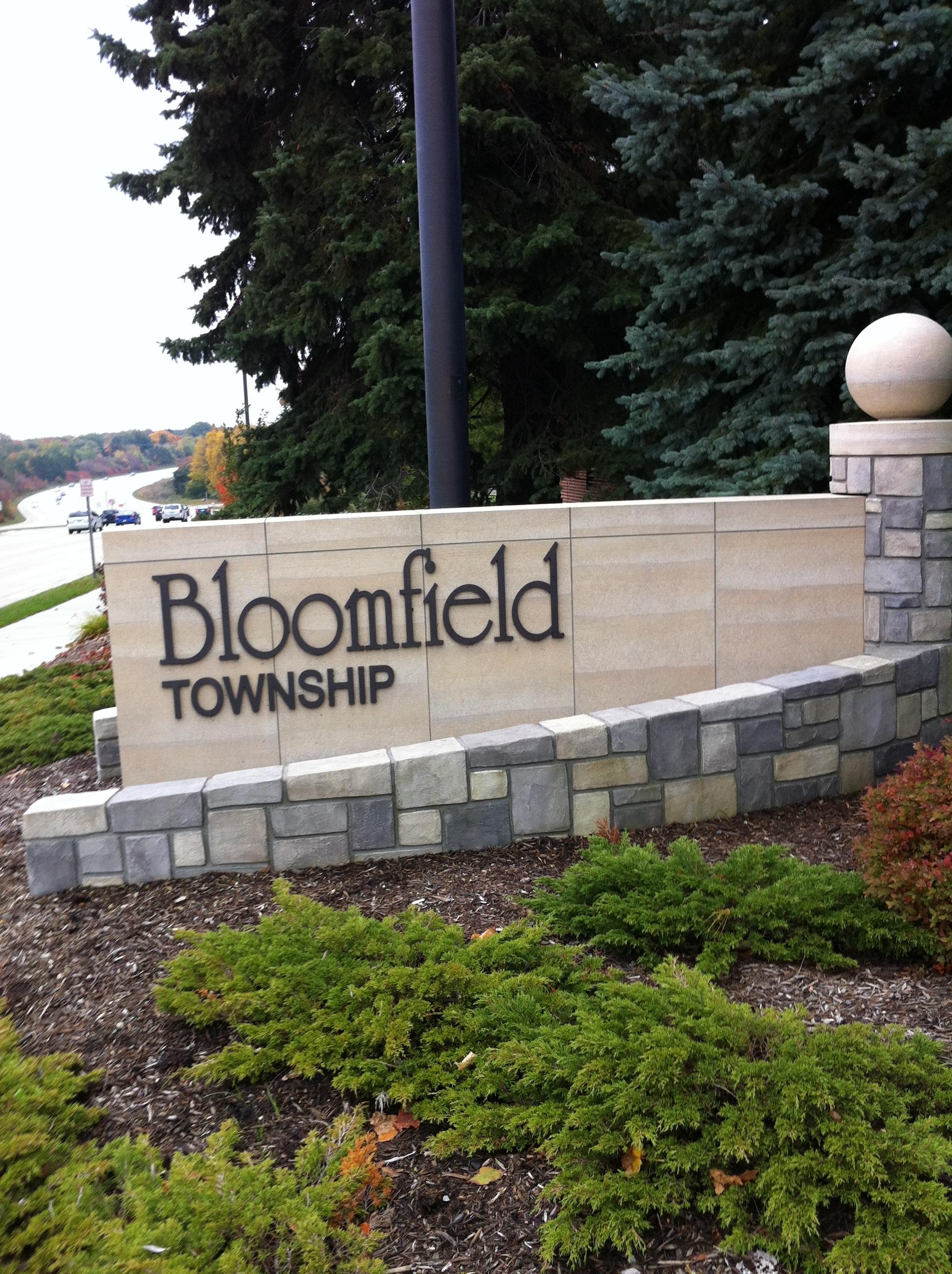 This is the Bloomfield Township Gateway/Welcome sign on South Telegraph Road in Bloomfield Township, MI. It is located near the Bloomfield Township Hall, Police Headquarters, and City Clerk's office.